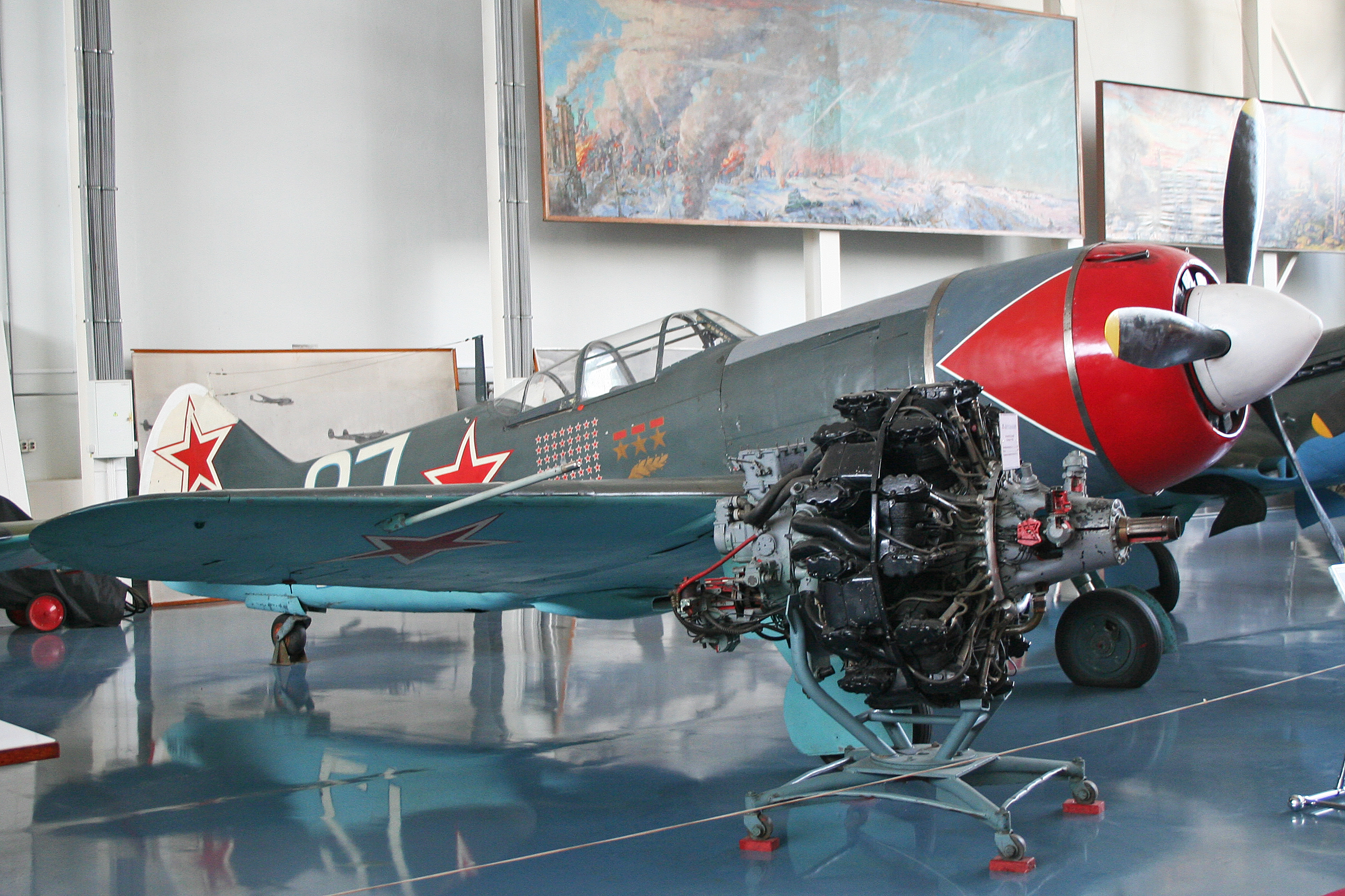 This is a very significant aeroplane. It is the genuine '27 white' flown by Soviet ace Ivan Kozhedub. Many warbirds and museum aircraft are painted in this scheme, but this is the actual original. Kozhedub is regarded as the best Soviet ace of WW2, having a natural gift for deflection shooting. In 330 combat missions he took part in 120 engagements and scored 62 victories including an Me-262! While the aircraft is original, the debate continues about the colour scheme. It has certainly worn this scheme since first seen at Monino in the early 1970's. The aircraft is now on display in the new hangar near the museum entrance, which houses many of the museums WW2 types. Russian Air Force Museum. Monino, Russia.